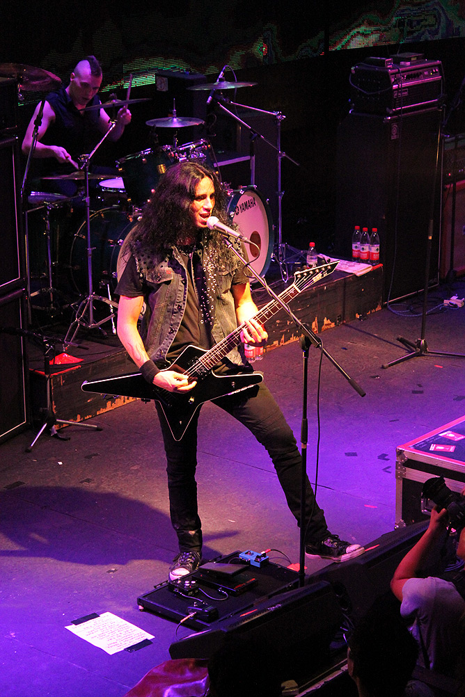 Gus G live in shanghai